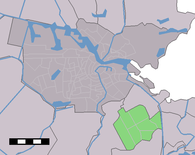 Location of neighbourhoods/districts in Amsterdam